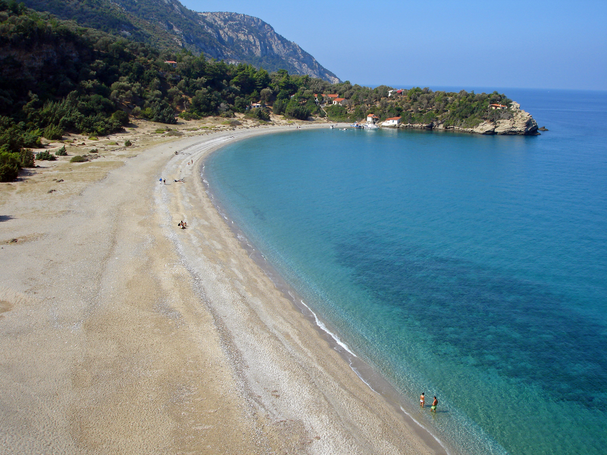 View of Megalo Seitani beach located on the North West of Samos, Greece. Image by Nikolaos Angelis (25/09/2005)